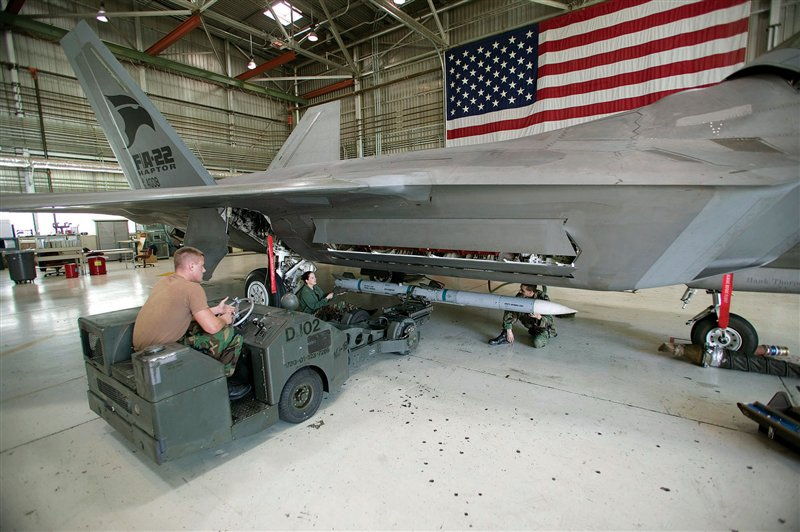 An AIM-120D is loaded onto a F-22 Raptor for testing